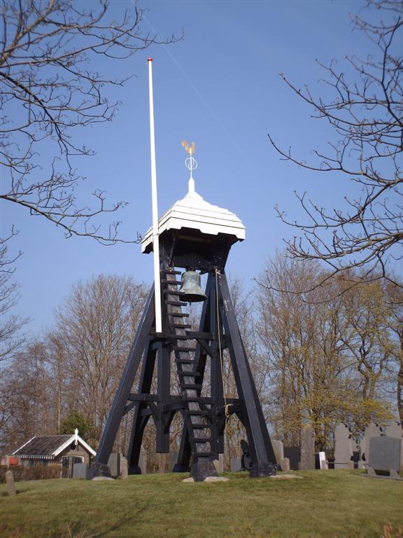 wooden bell tower in Follega, Friesland, Netherlands